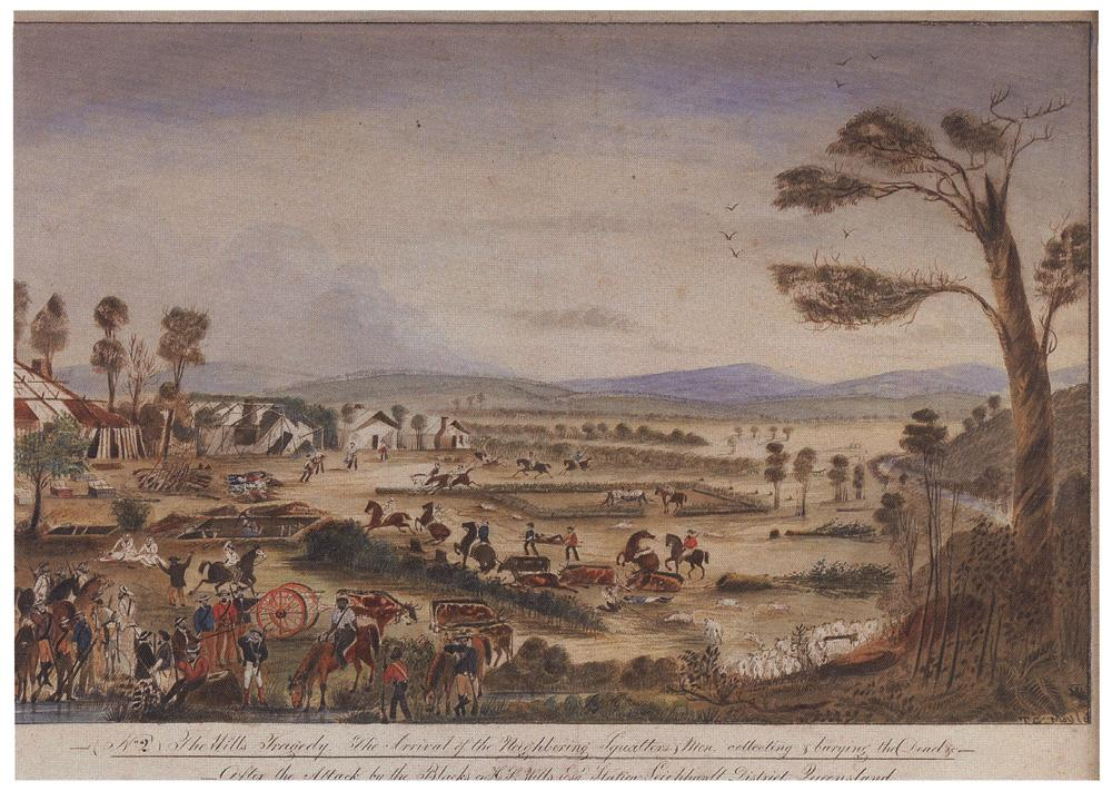 The Wills Tragedy: The arrival of the neighbouring squatters and Mon collecting and burying the dead, after the attack by the blacks on H.R. Wills ESQ. Stationed Leichhardt district, Queensland.